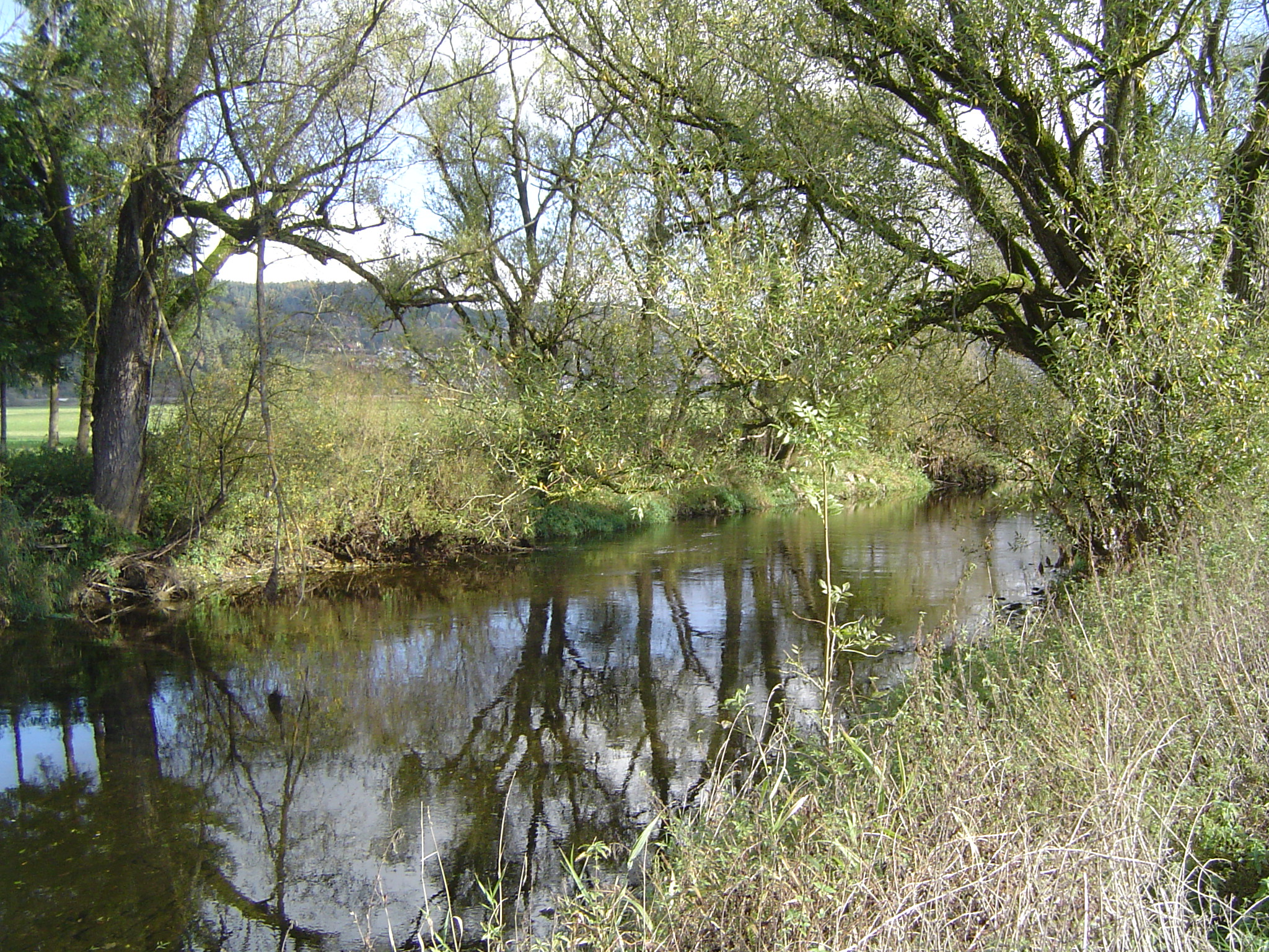 The danube near by Nendingen.